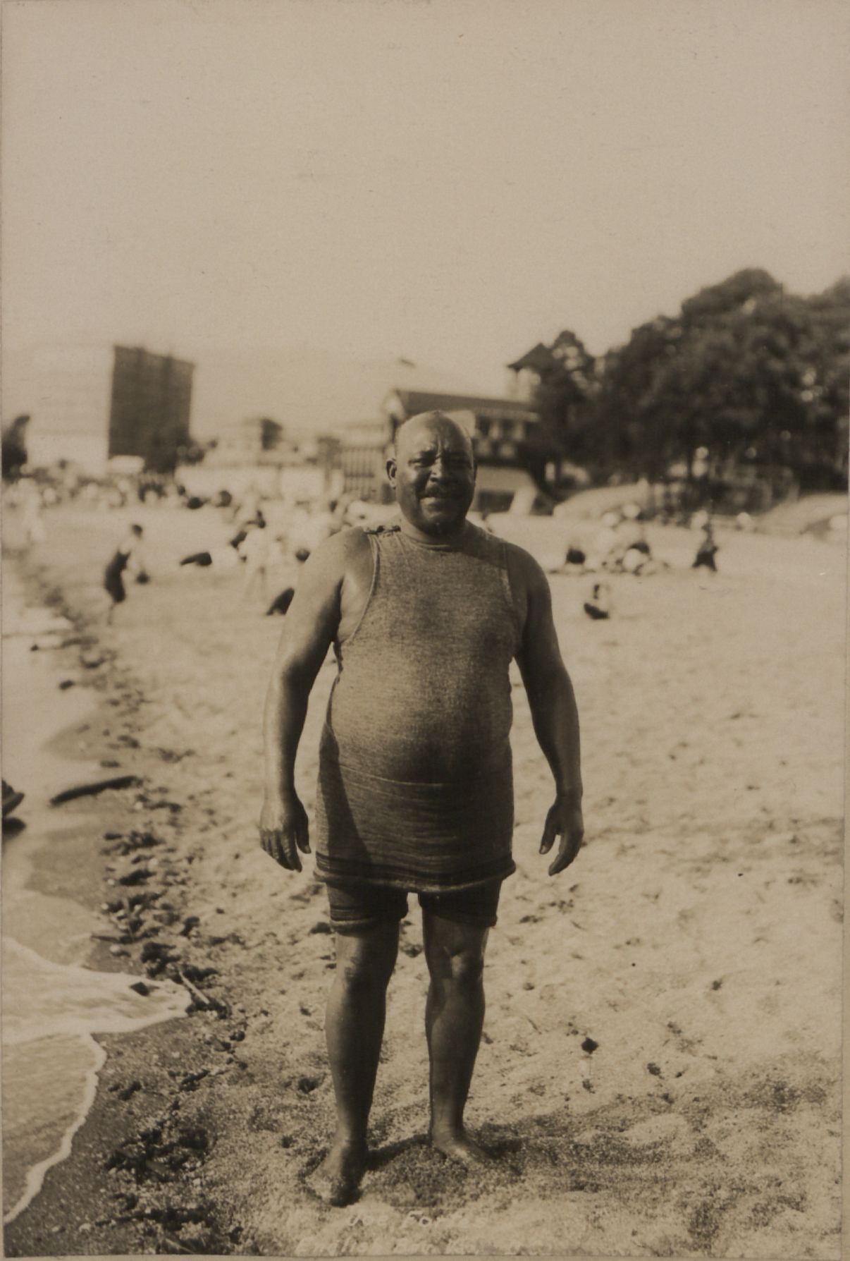 Original caption: “Joe Fortes.”